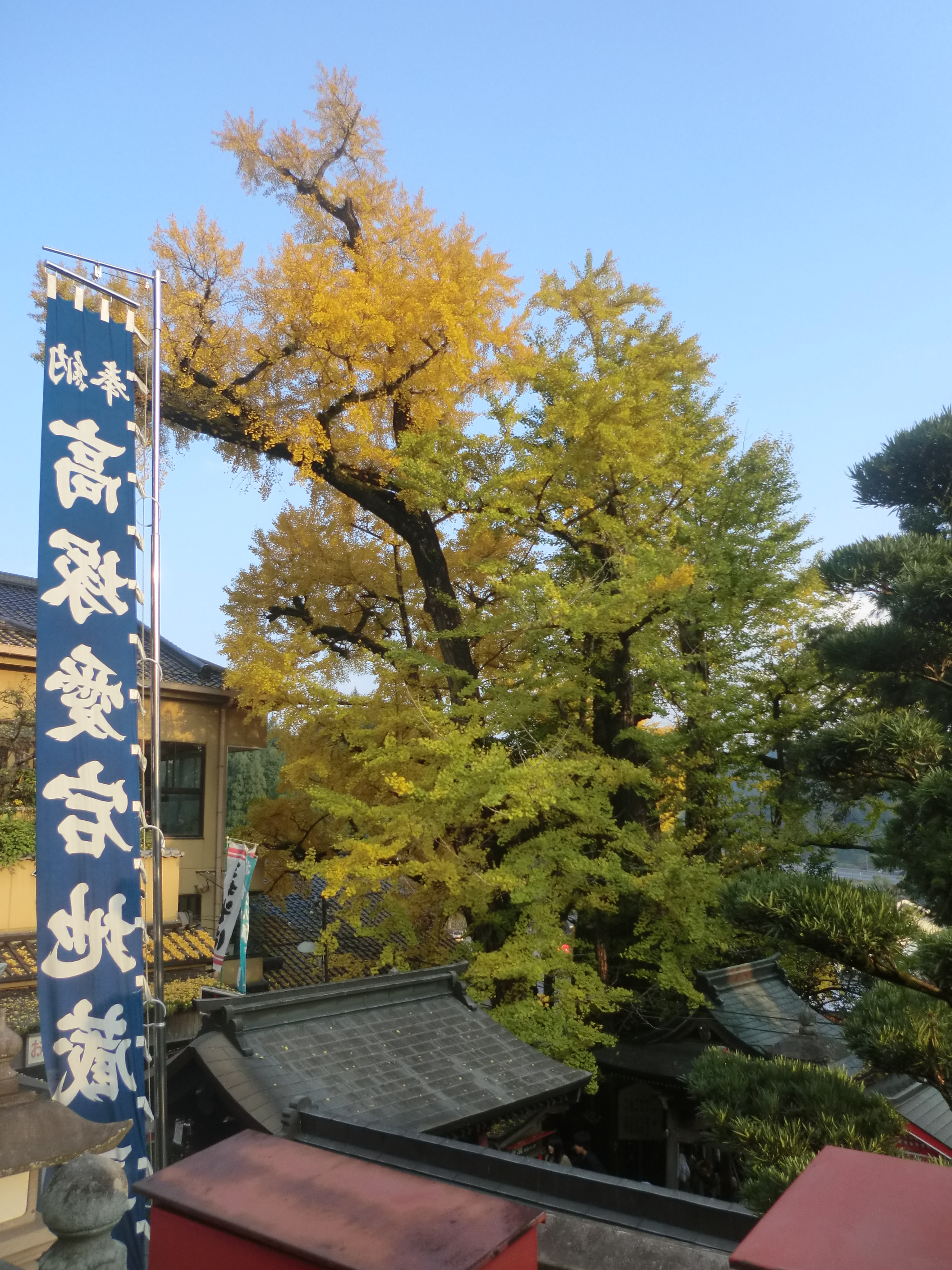 Secred tree(Ginkgo biloba) of Takatsuka Jizou temple at Hita, Oita, Japan. It is sometimes called "Chichi Icho"(Breast Ginkgo).